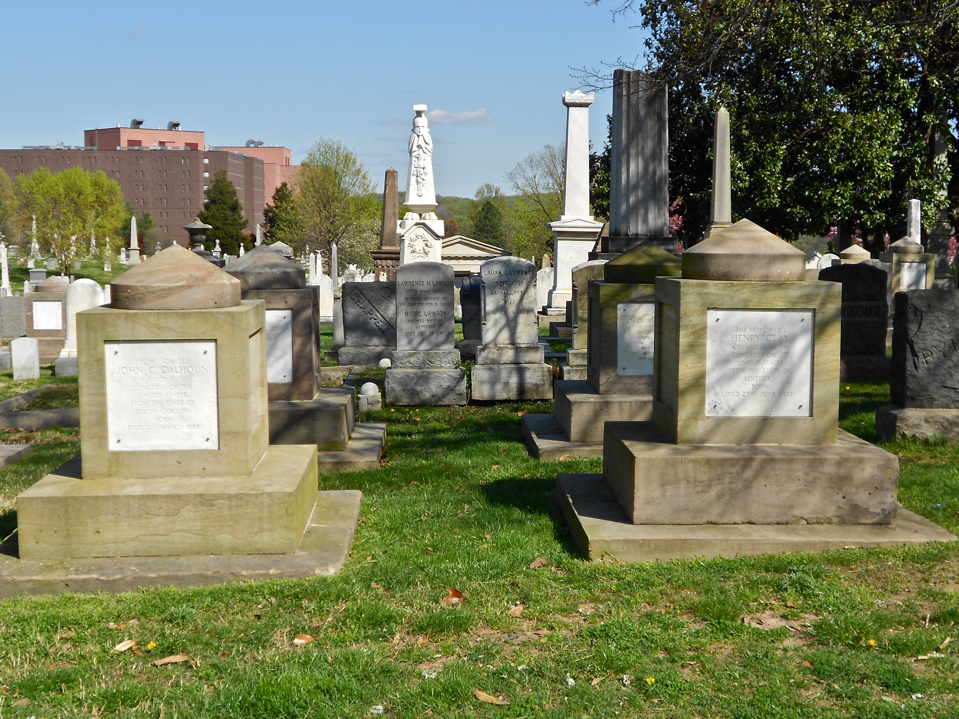 The cenotaphs (neither is buried there) of John C. Calhoun and Henry Clay at the Congressional Cemetery in Washington, DC. Both were major leaders in the US Senate before the Civil War.